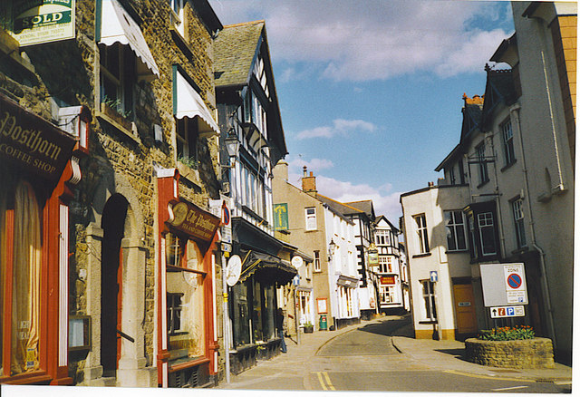 Sedbergh, Market Town. The town is in the far north west corner of Yorkshire but is more akin to a Lakeland town. It services a fairly large rural area as well as being a small tourist centre. A tea / coffee shop and the Bull Hotel can be seen in the photograph above amongst a mix of building styles.